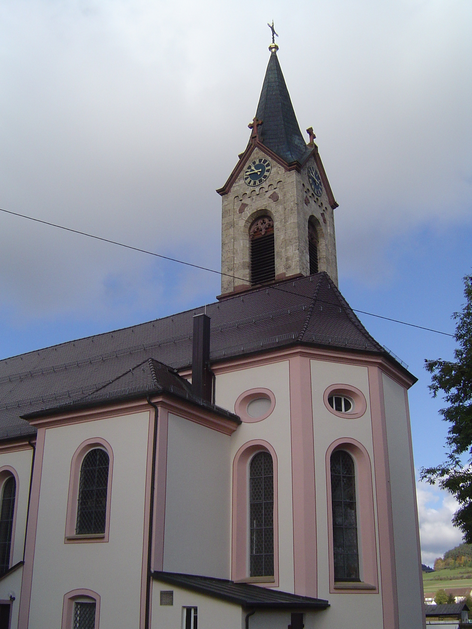 The church of Nendingen.